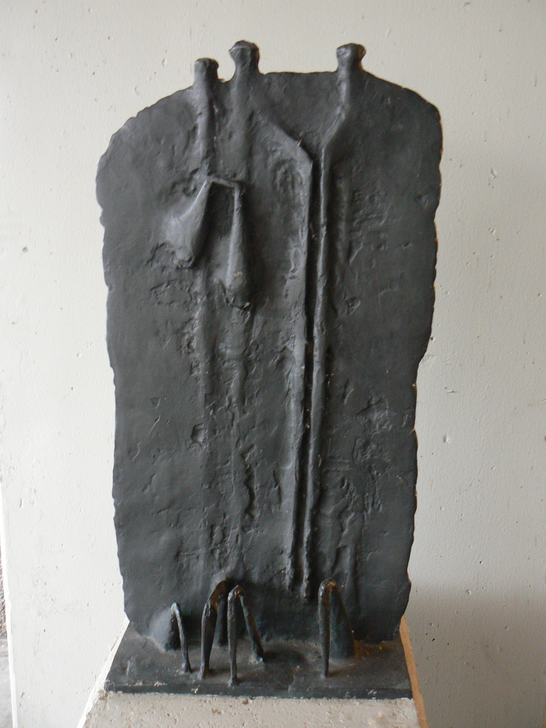 Collection: Skulpturenmuseum Glaskasten Location: City Center Marl/Germany Sculpture: Sitting People (1952/4) Sculptor: Kenneth Armitage